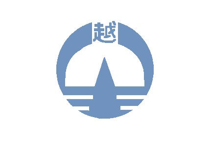 Flag of Ogose Saitama